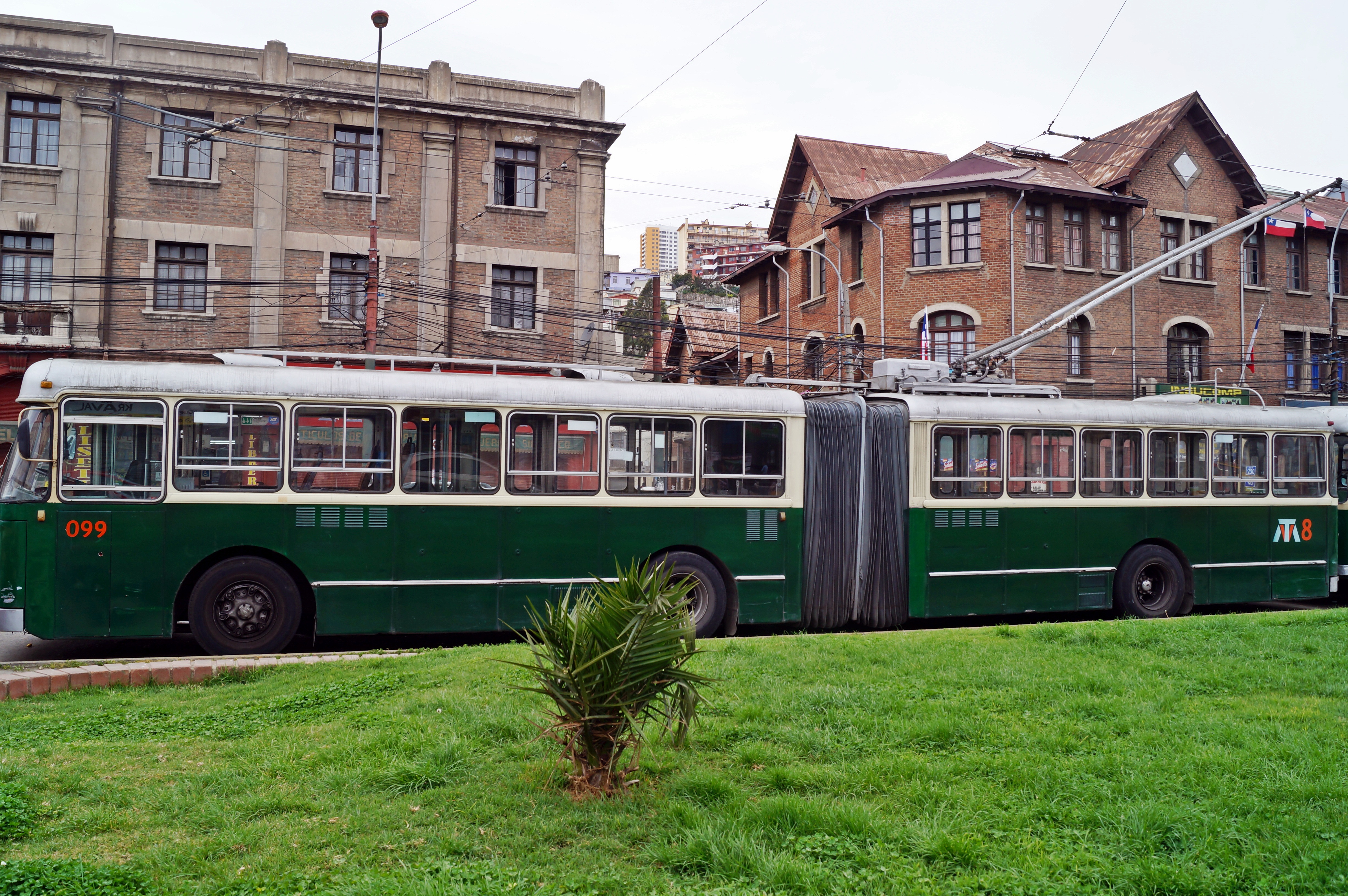 This is a photo of a national monument in Chile: 2010